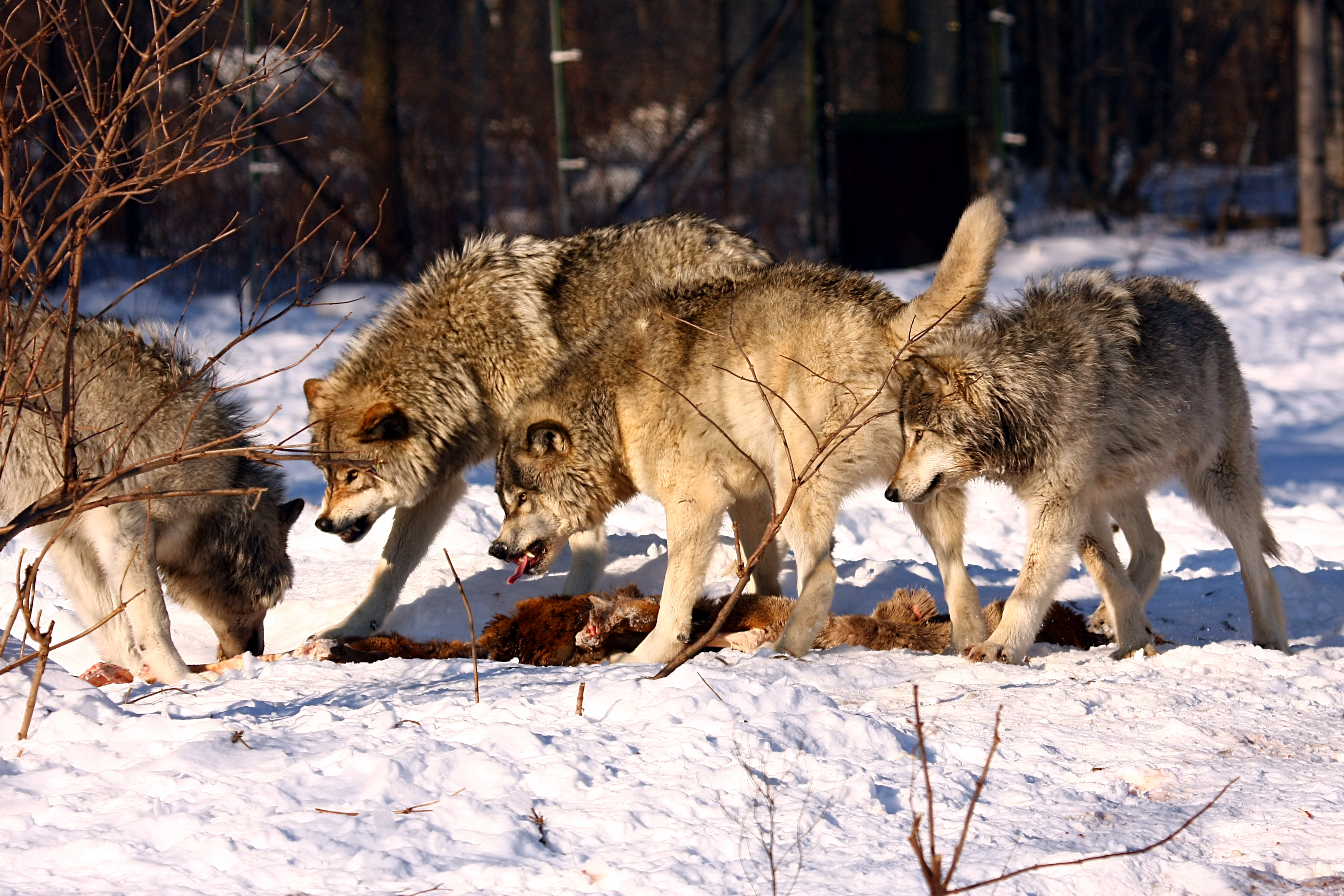 Wolves fighting over carcass, Parc Omega, Quebec